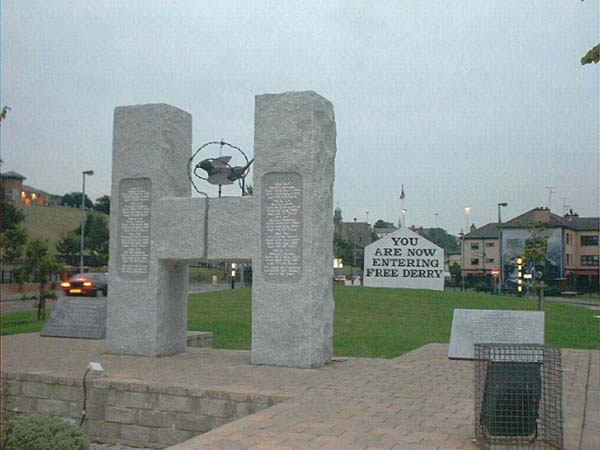 Free derry corner in Bogside in Derry